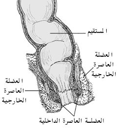 Diagram of the rectum and anus.